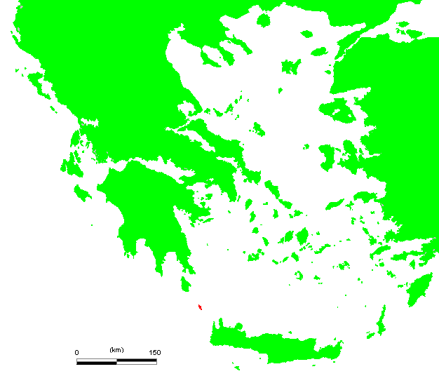 Antikythera.png (Greek island)